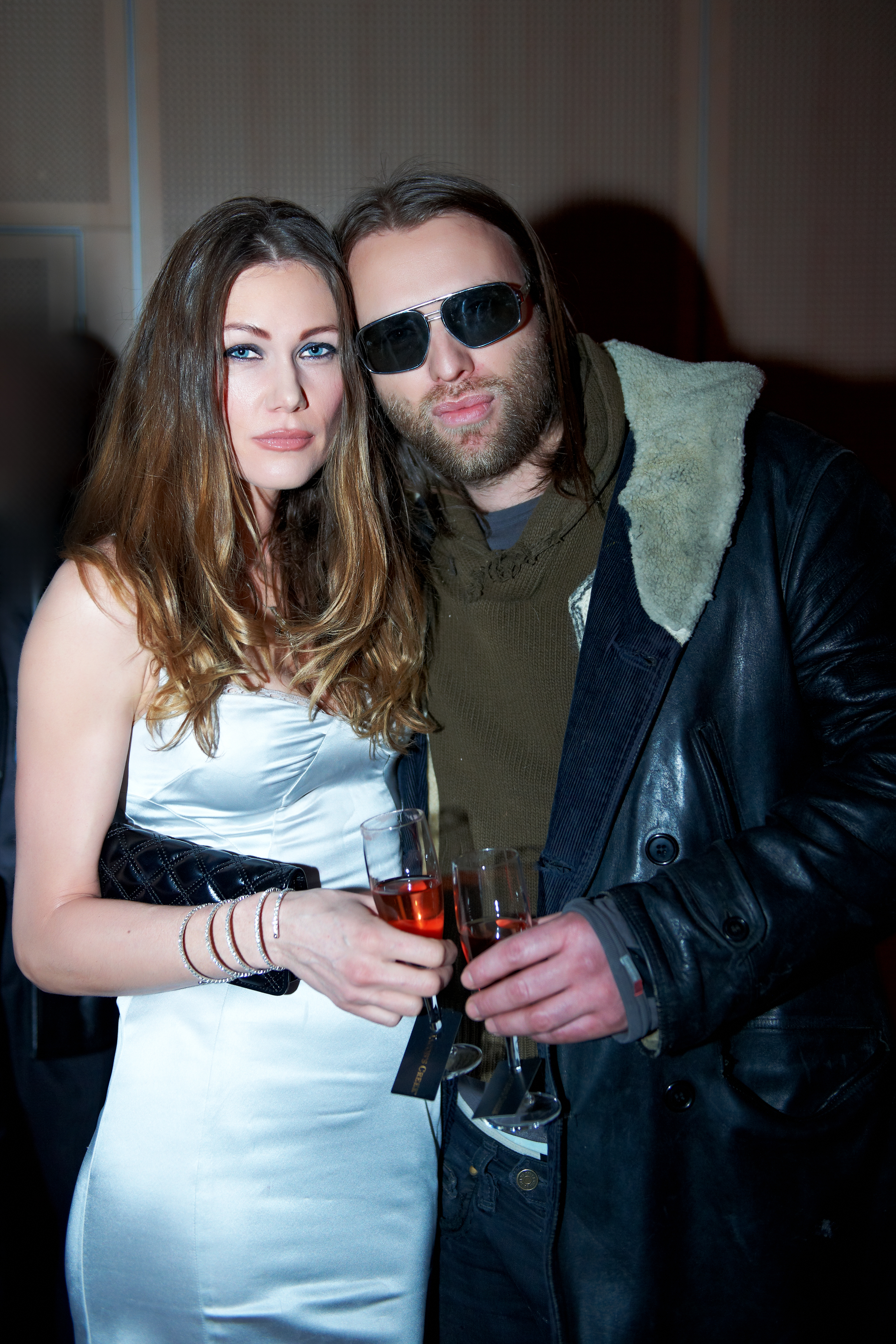 Marianne Aulie and Aune Sand at opening of Oslo Fashion Week 2010.